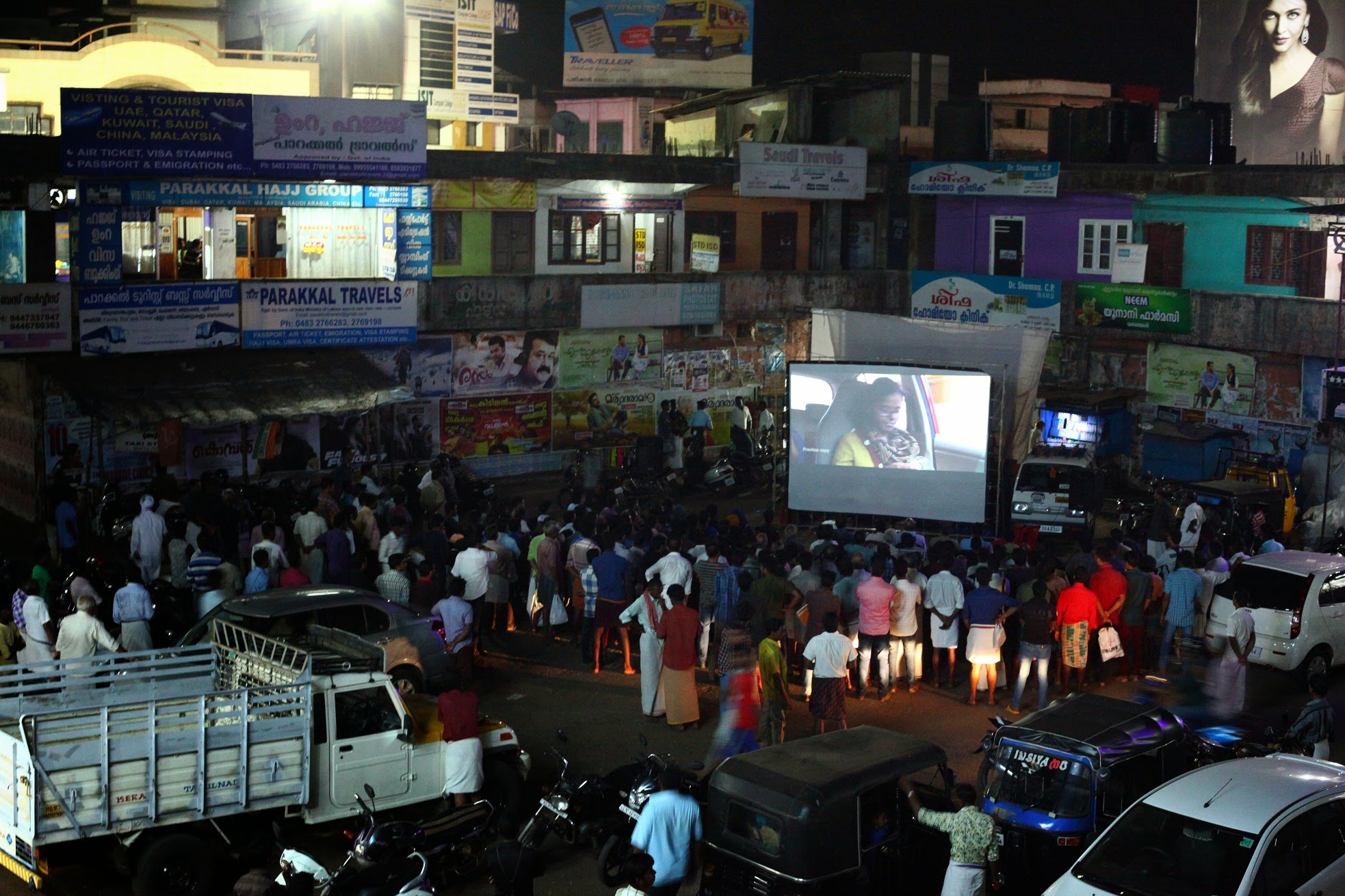 Cinema Vandi Screening 2015